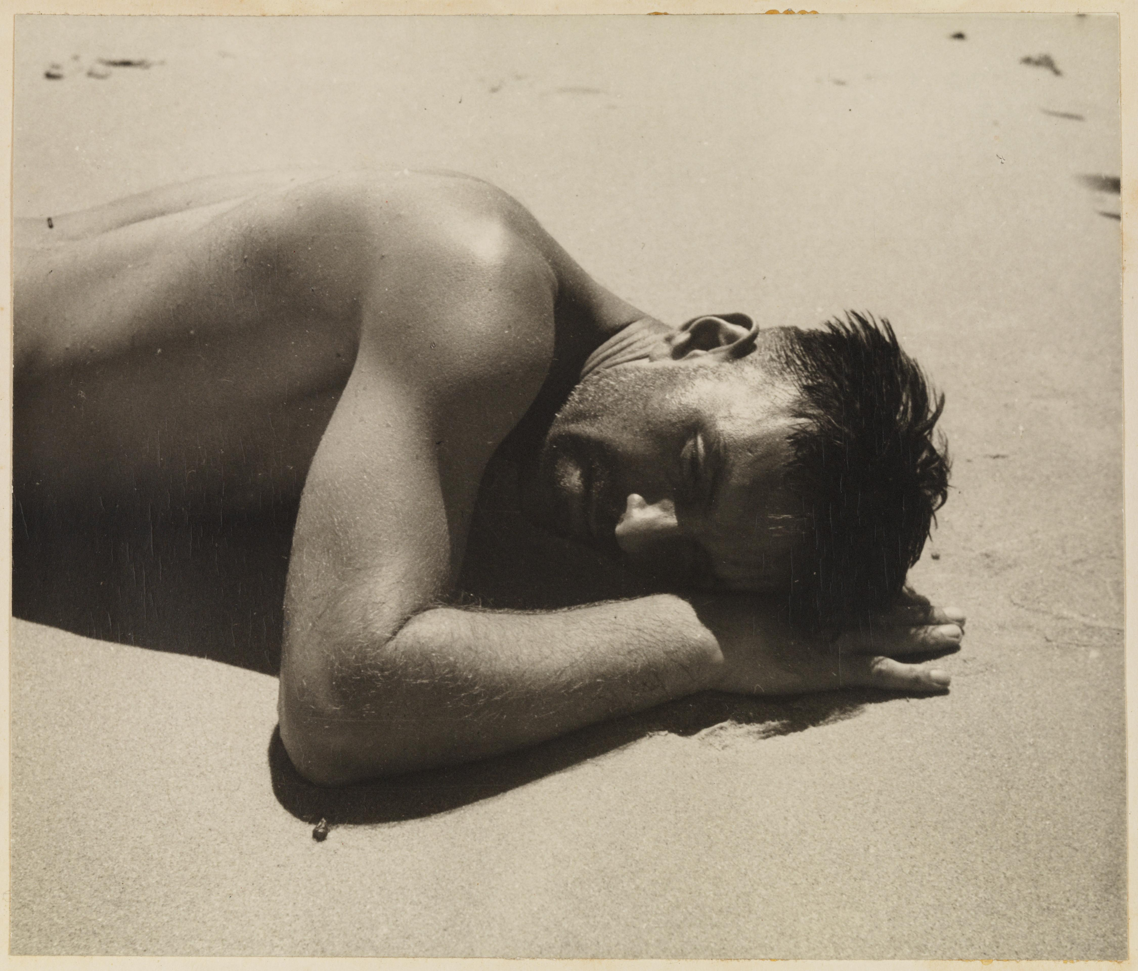 Find more detailed information about this photographic collection: .au/search/itemDetailPaged.cgi?itemI... Search for more great images in the State Library's collections: .au/search/SimpleSearch.aspx From the collection of the State Library of New South Wales